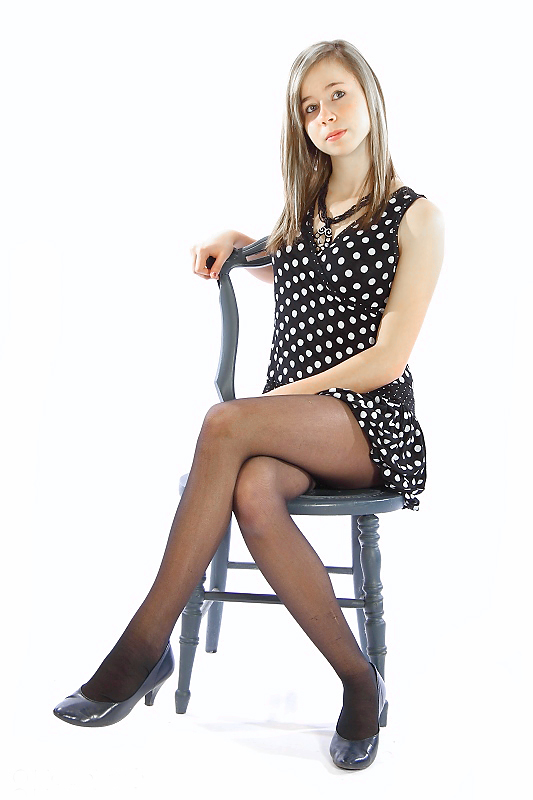 Studio portrait of a girl wearing a black polka dot dress sitting in a chair.